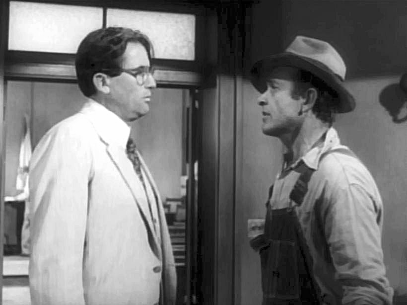 Gregory Peck (lef) & James Anderson in To Kill a Mockingbird - trailer (cropped screenshot)